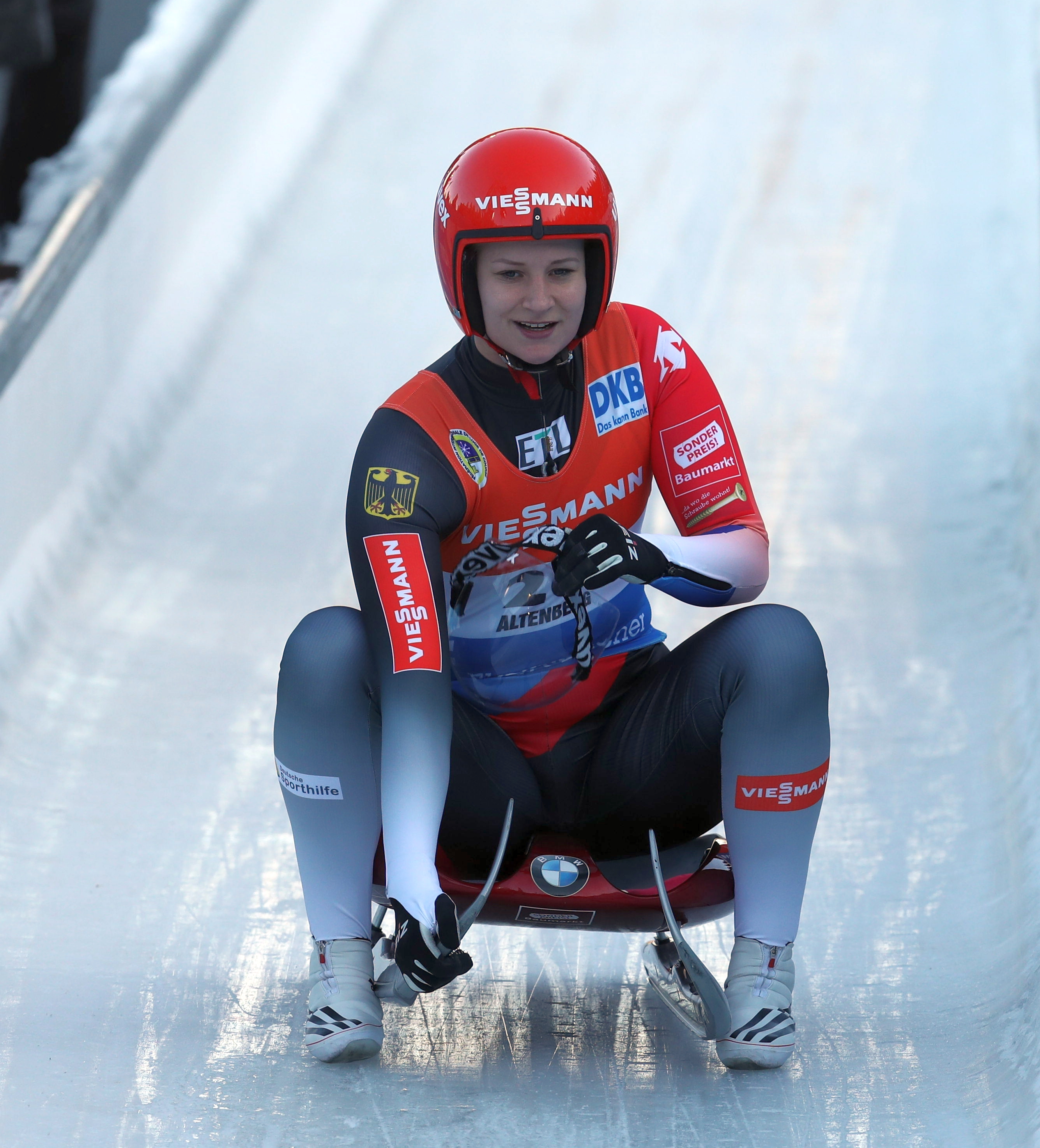 Luge World Cup Women 2017/18 in Altenberg: Dajana Eitberger